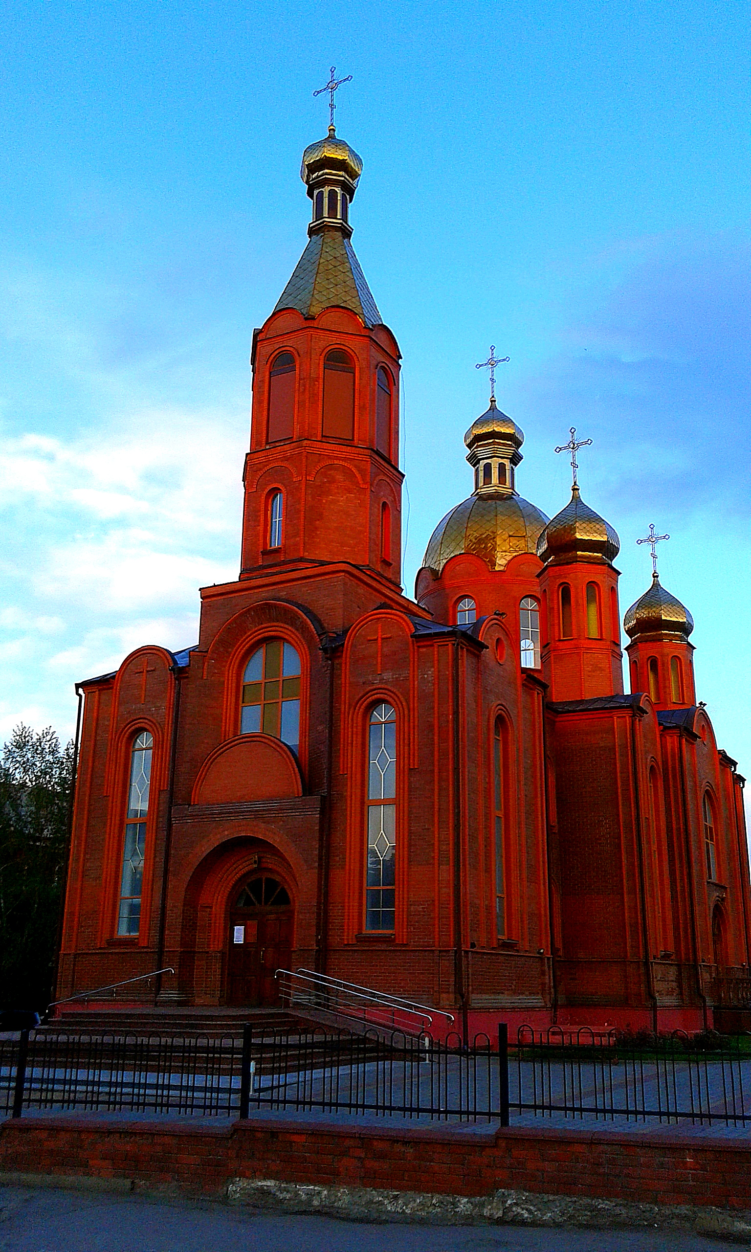 (1) ST OLEKSANDR NEVSKY ORTHODOX CATHEDRAL IN CITY OF ZMERYNKA REGION OF VINNYTSIA STATE OF UKRAINE PHOTOGRAPH BY VIKTOR O LEDENYOV 20160509